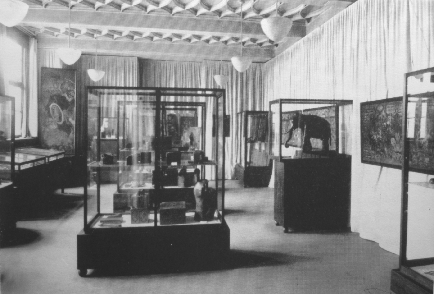 Museum in the Technische Lehranstalten (1917), today German Leather Museum